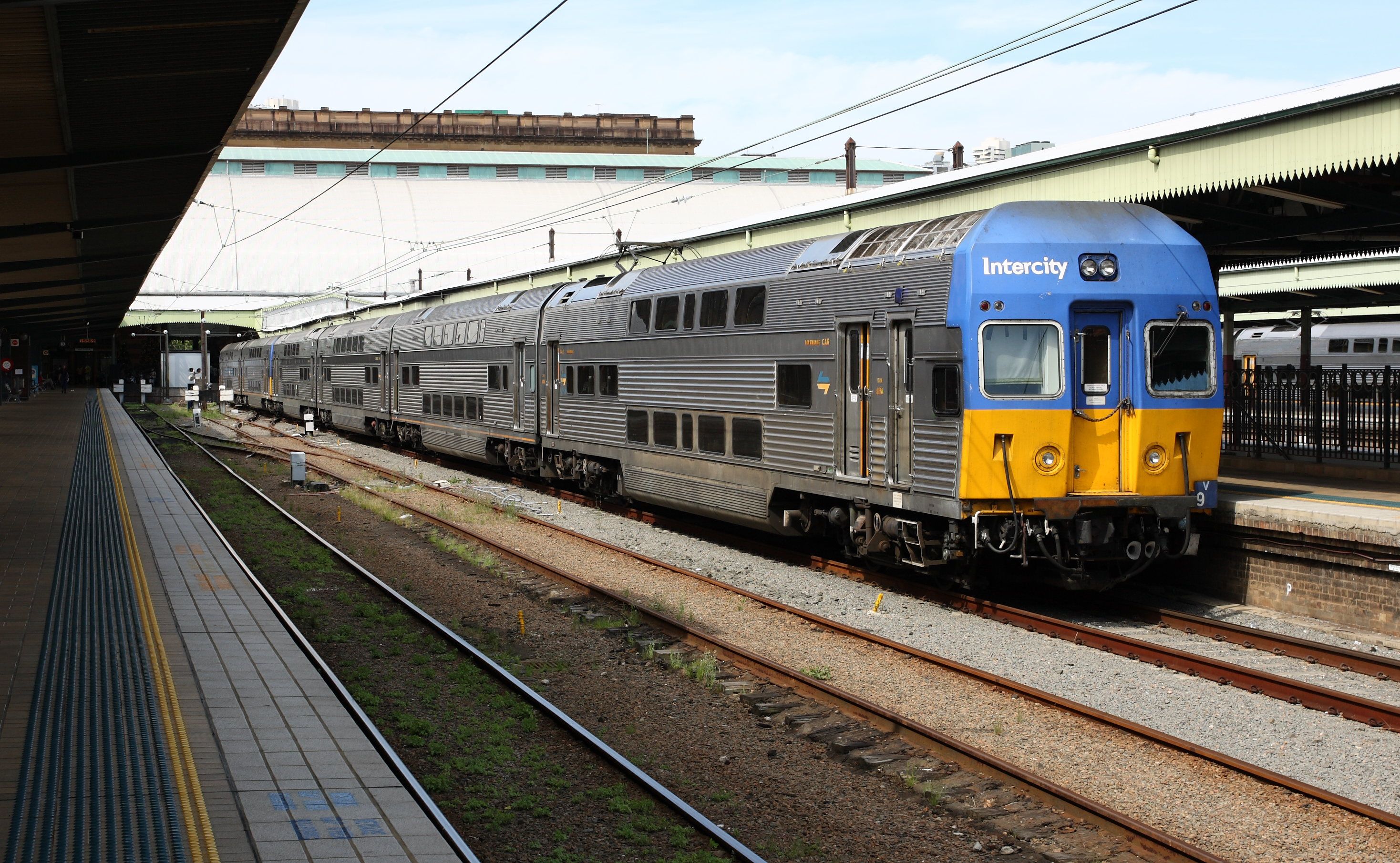 V set 9 at Sydney Central station.